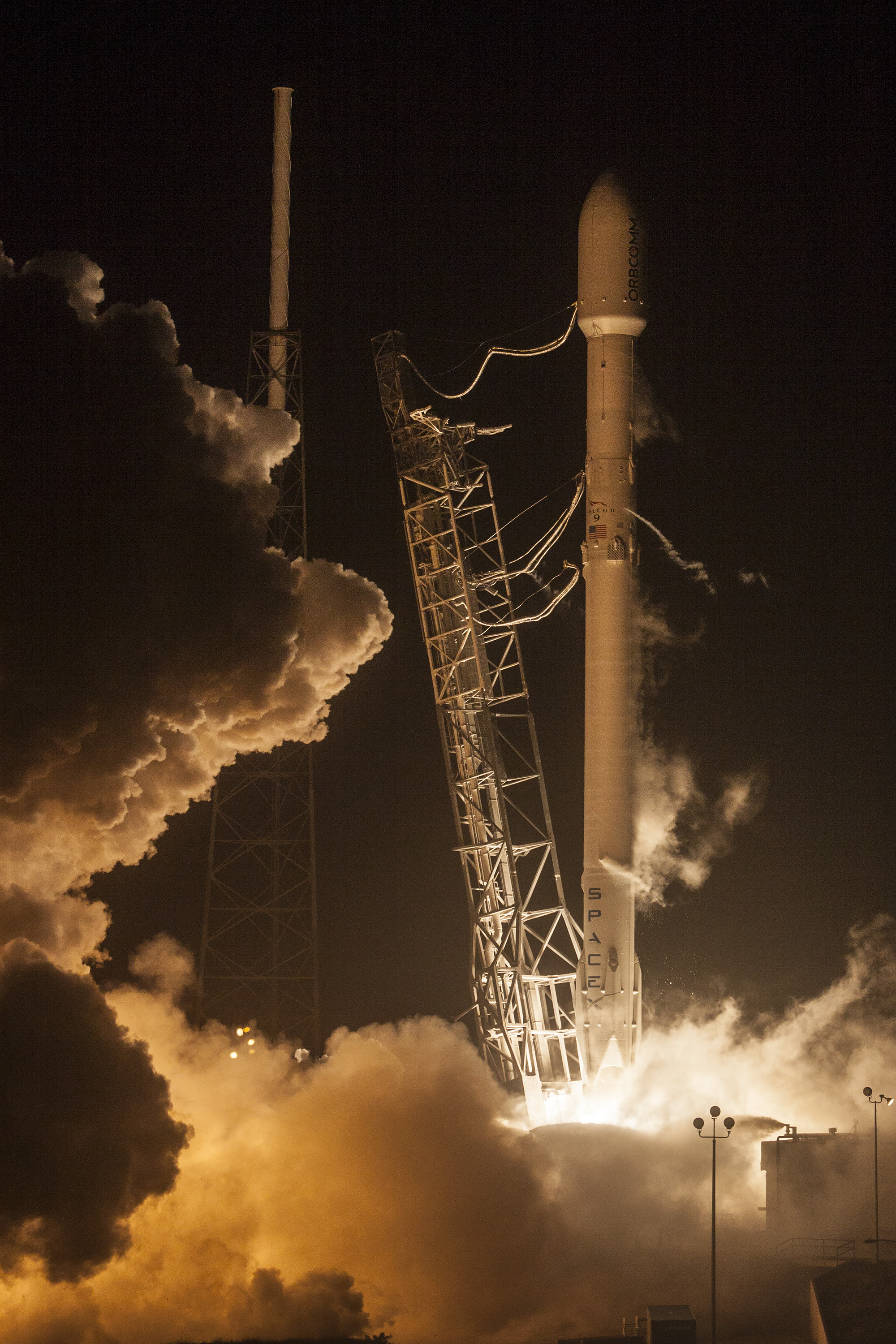 Falcon 9 Flight 20 carrying the ORBCOMM-OG2 payload, at liftoff, on 22 Dec 2015 (UTC)